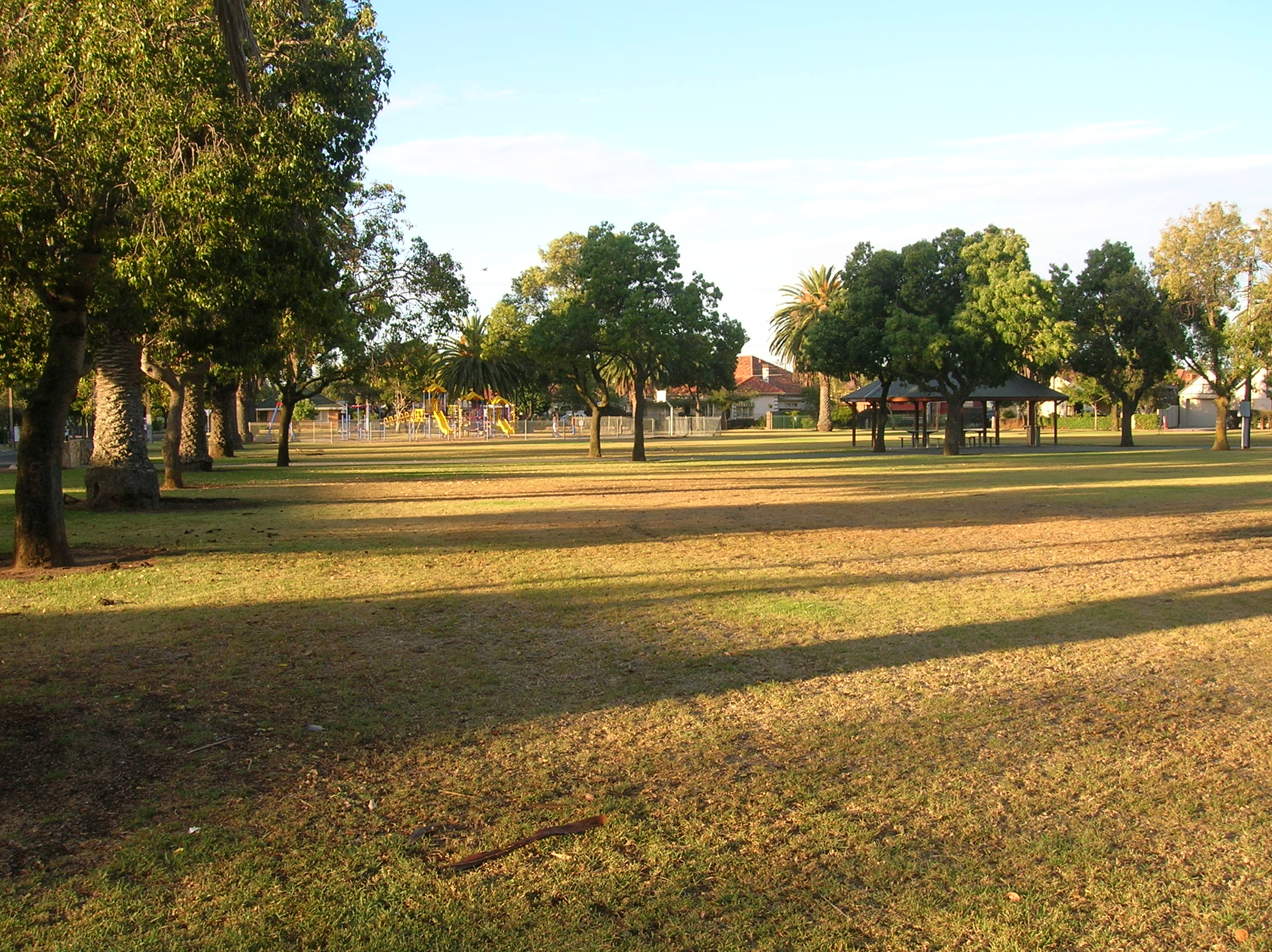 Da Costa Reserve Glenelg East. James Came